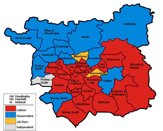 Ward map of Leeds City Council with political colouring for the 1992 election.